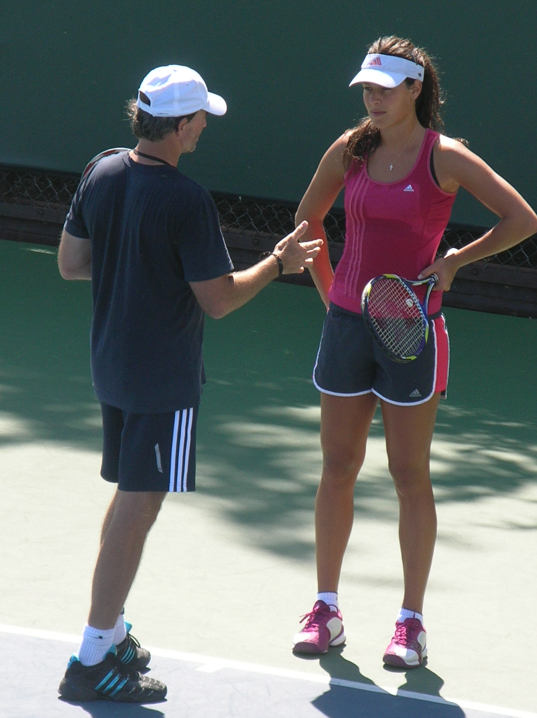 Heinz Gunthardt (left) and Ana Ivanović during practice at the Bank of the West Classic at Stanford.